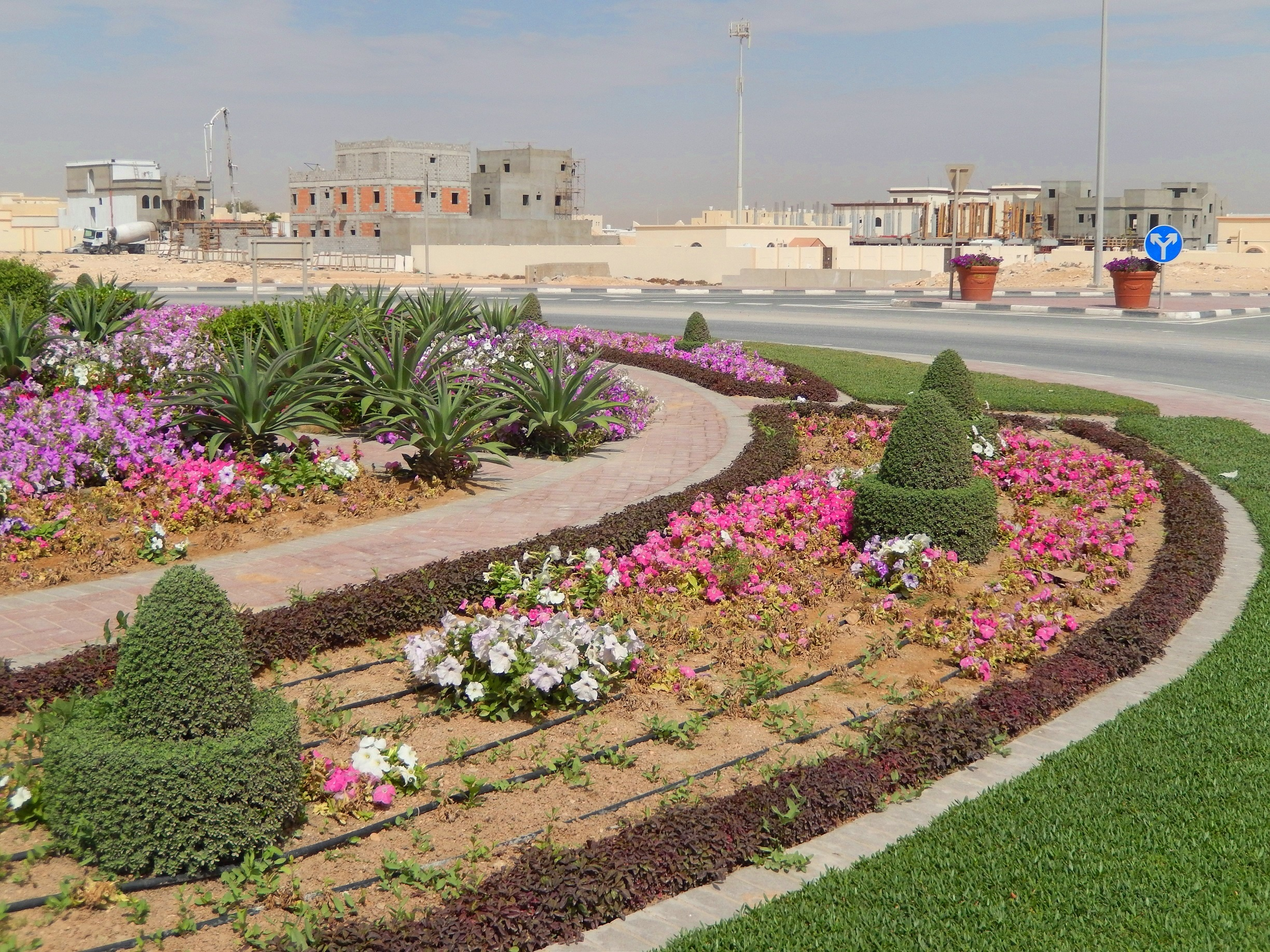 Park-like roundabout in the centre of Simaisma, a coastal town in the Al Daayen municipality, eastern Qatar. Note the water tubes in the flower beds. In the background a residential area under construction.The town's name is also spelled as Smaisma, Sumaismah or Sumaysimah.